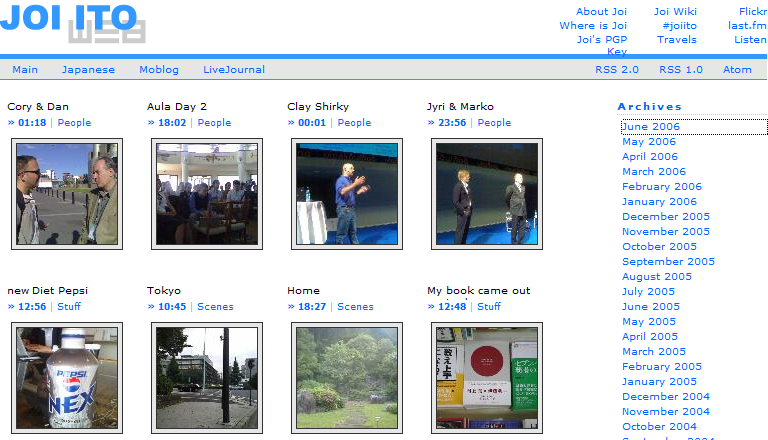 This is a photo of Joi Ito's Moblog, which is under a CC-BY-2.0 license